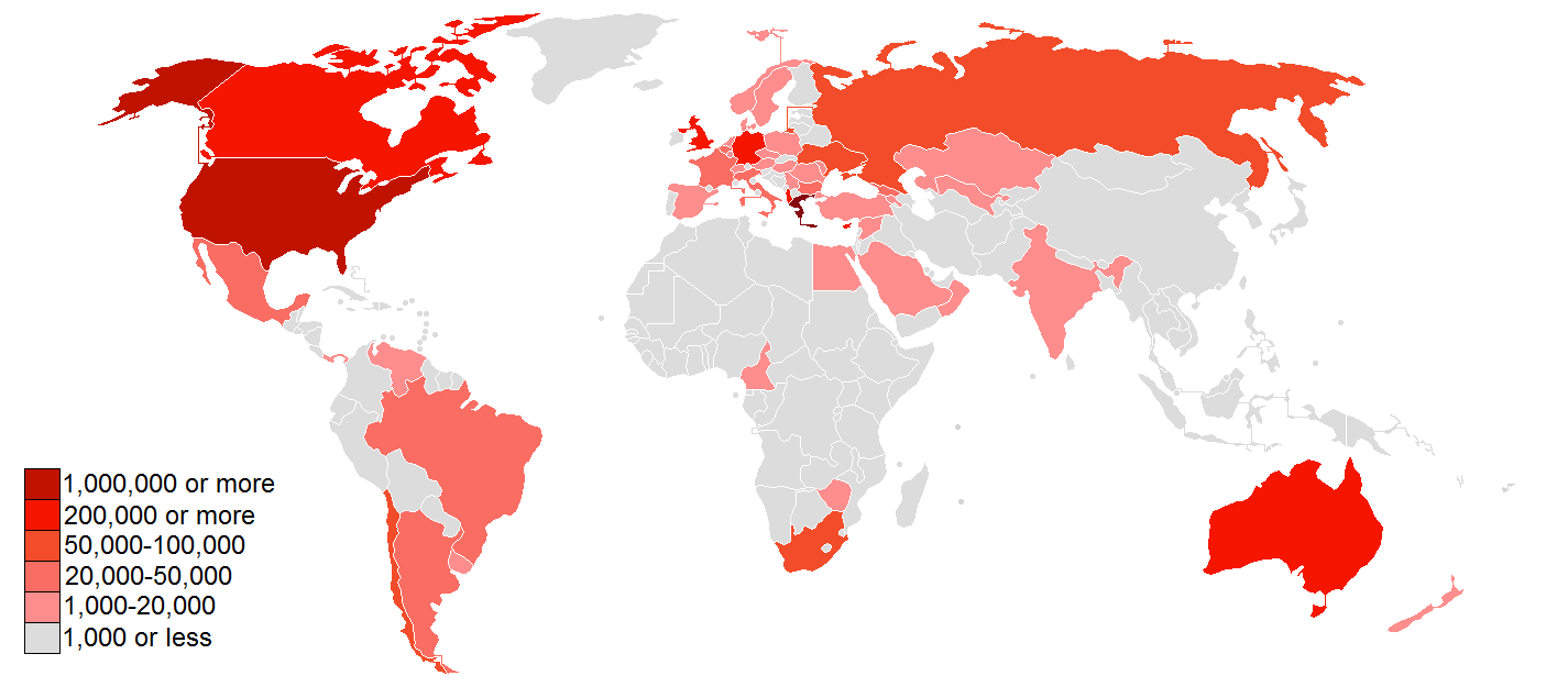 Map of the top 50 countries, outside Greece and Cyprus, with the largest Greek communities